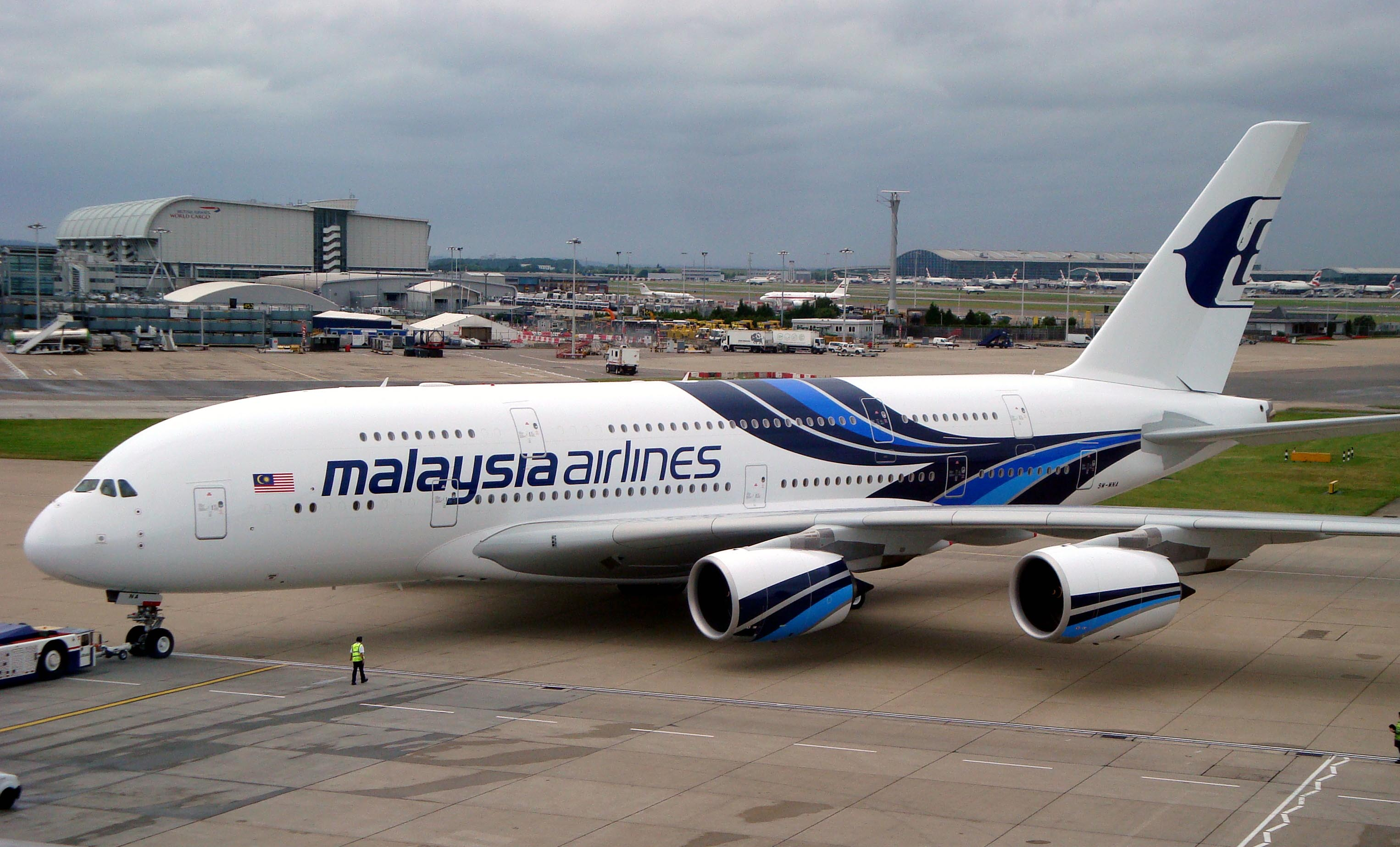 Malaysia-airlines-a380-flies